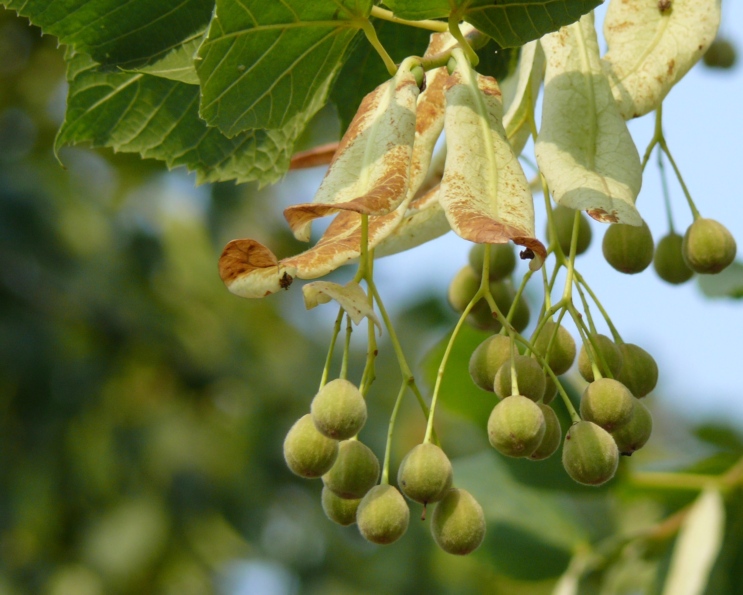 Fruits of Lime (genus Tilia).